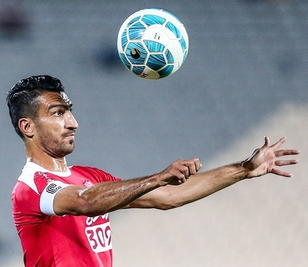 Hossein Mahini In the 2017 Iranian Super Cup.